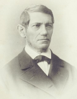 Carl Ferdinand von Arlt (1812–1887), Austrian ophthalmologist